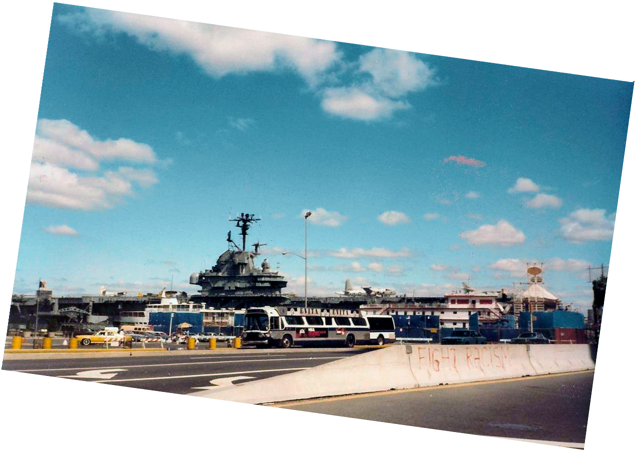 USS Interpid museum, 1982